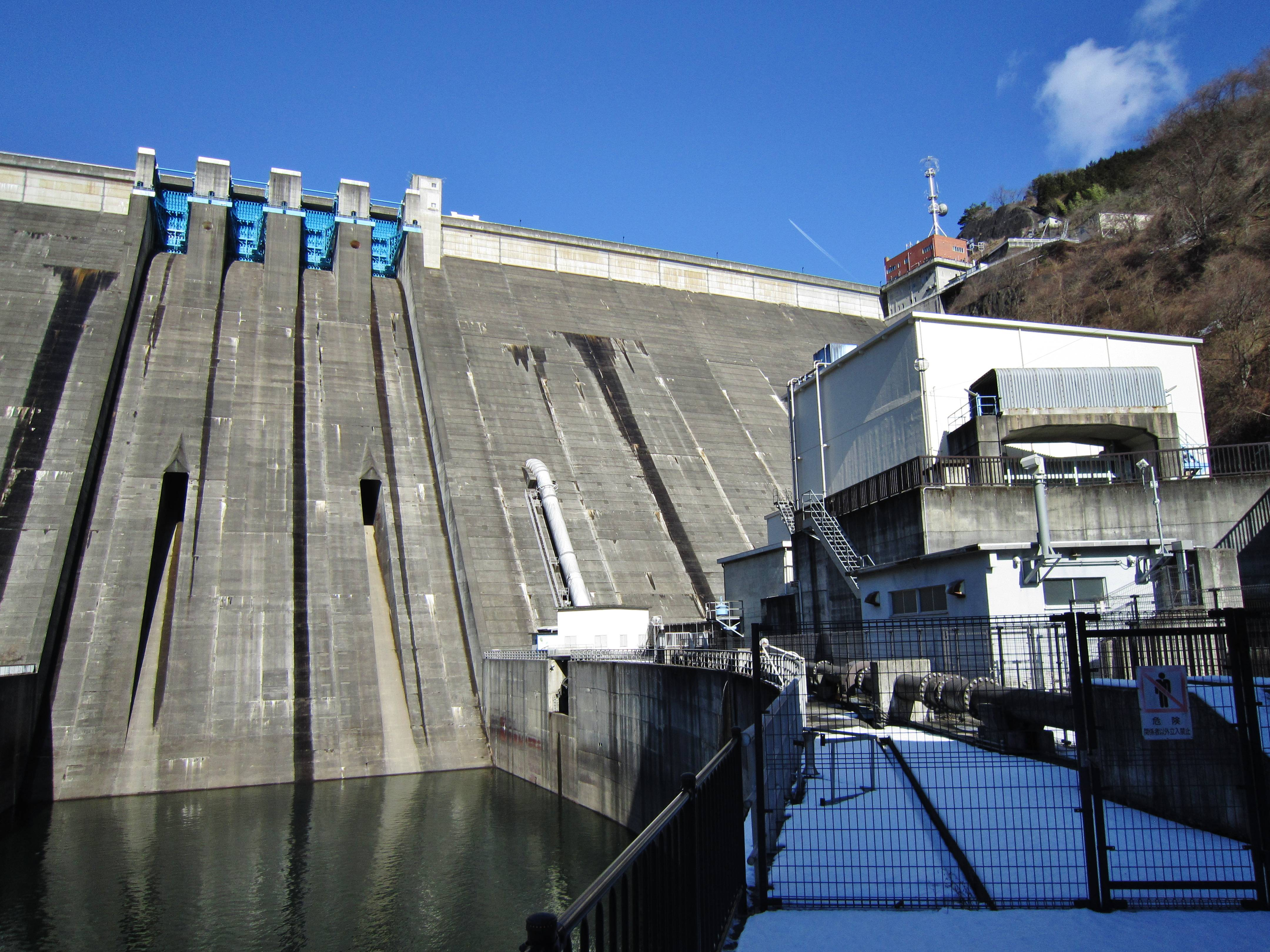 Azuma hydroelectric power station.